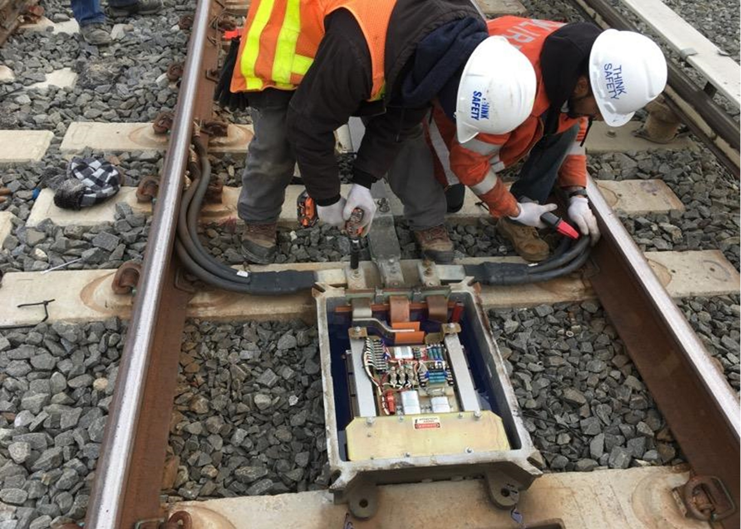 LIRR signals team connecting and testing a track circuit in Harold Interlocking. (ESA/LIRR, 12-09-2018)